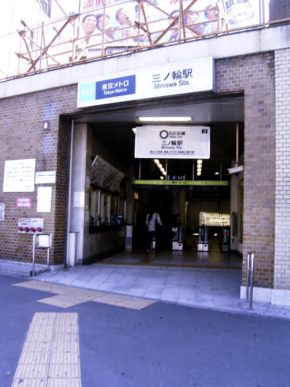 Tokyo Metro Minowa Station